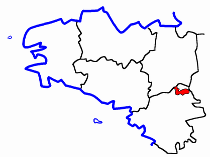 Description: Map for localisazion of cantons of Pays-de-Loire, region in France Source: made by Hervé Tigier in april 2005 from another large map (published in 1990)